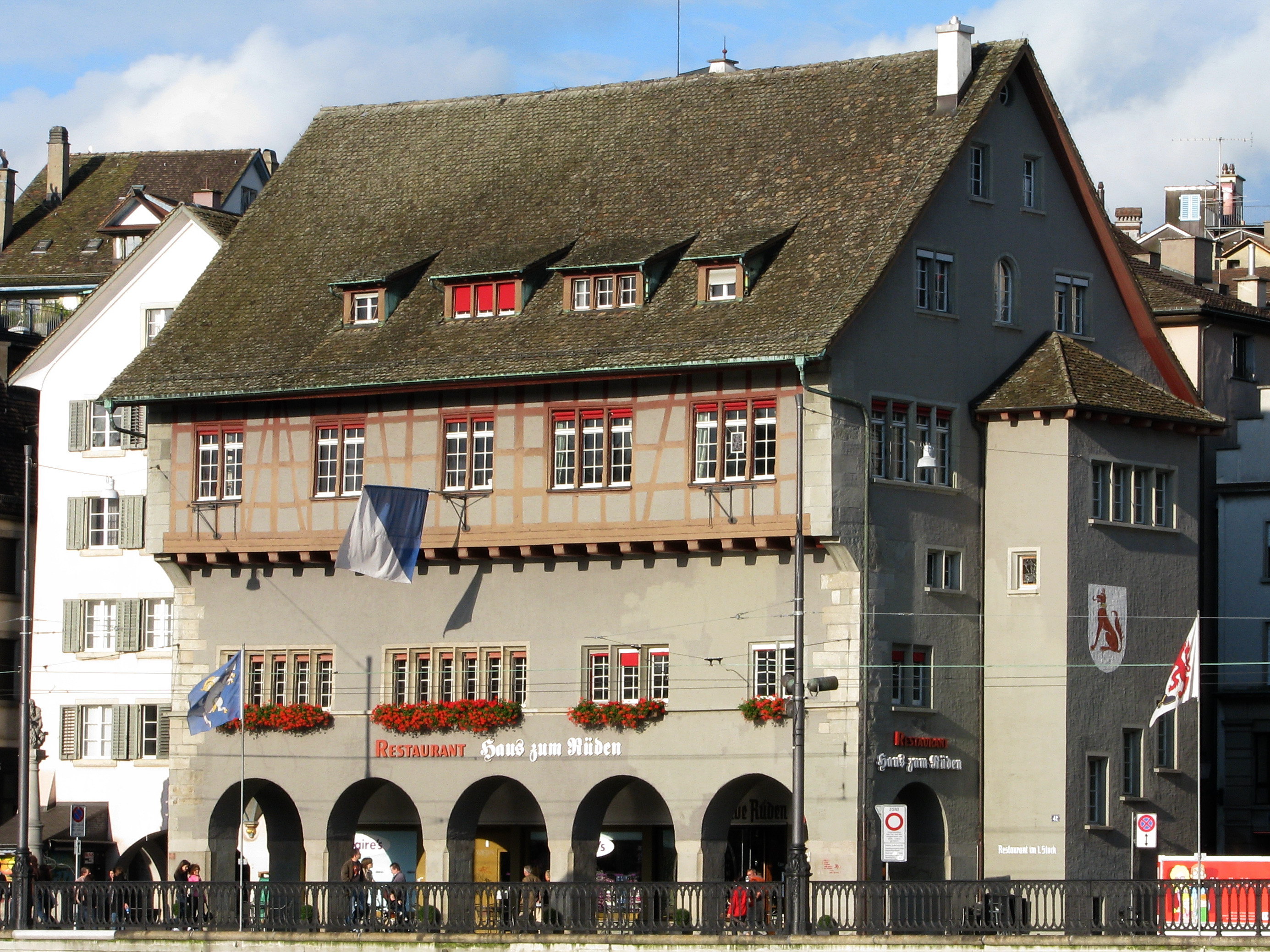 Zürich-Limmatquai : Zunfthaus «zum Rüden» of the Constaffel guild respectively society.